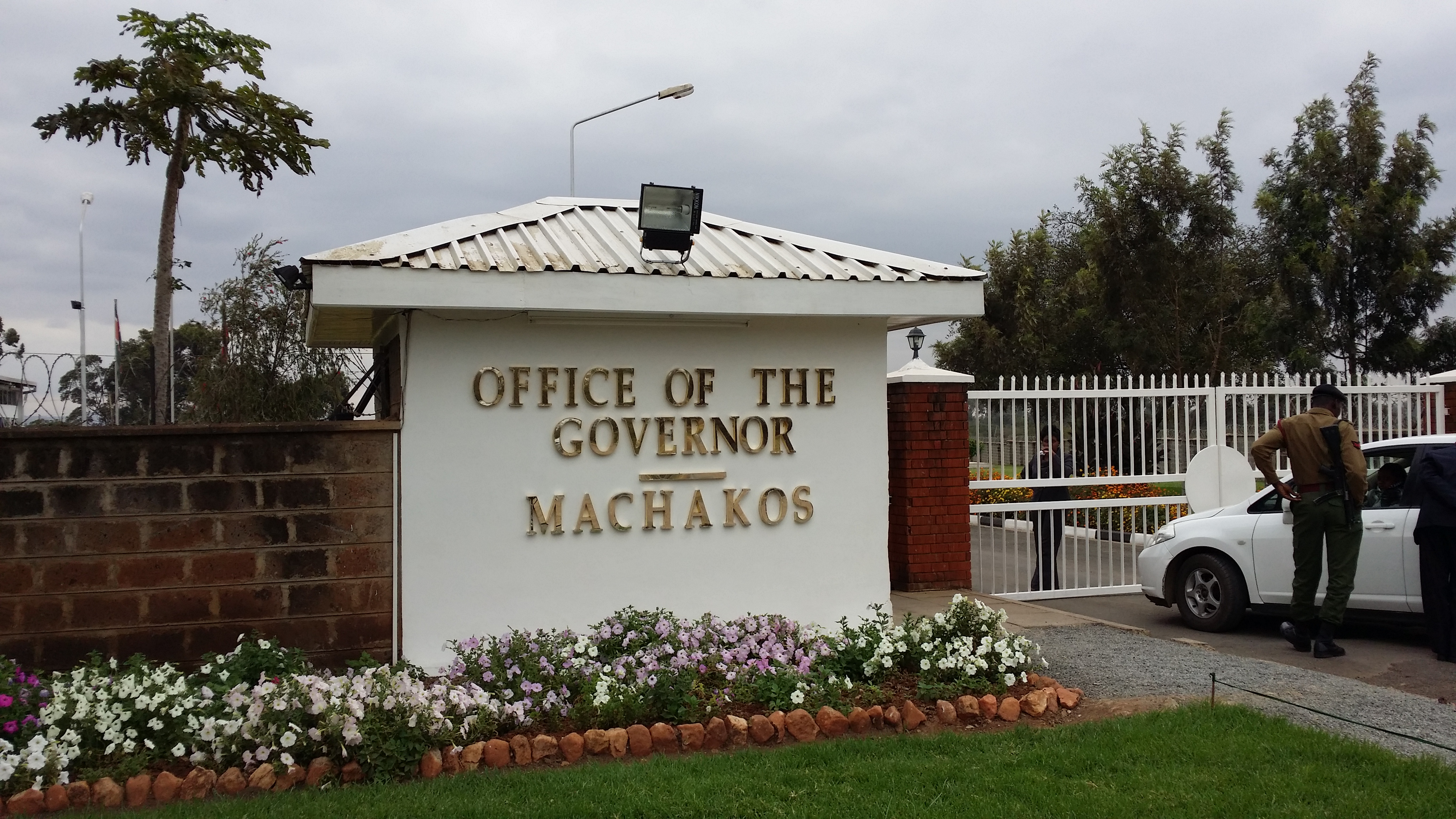 Office of the Governor, Machakos County Kiswahili: Ofisi ya Governor wa Machakos